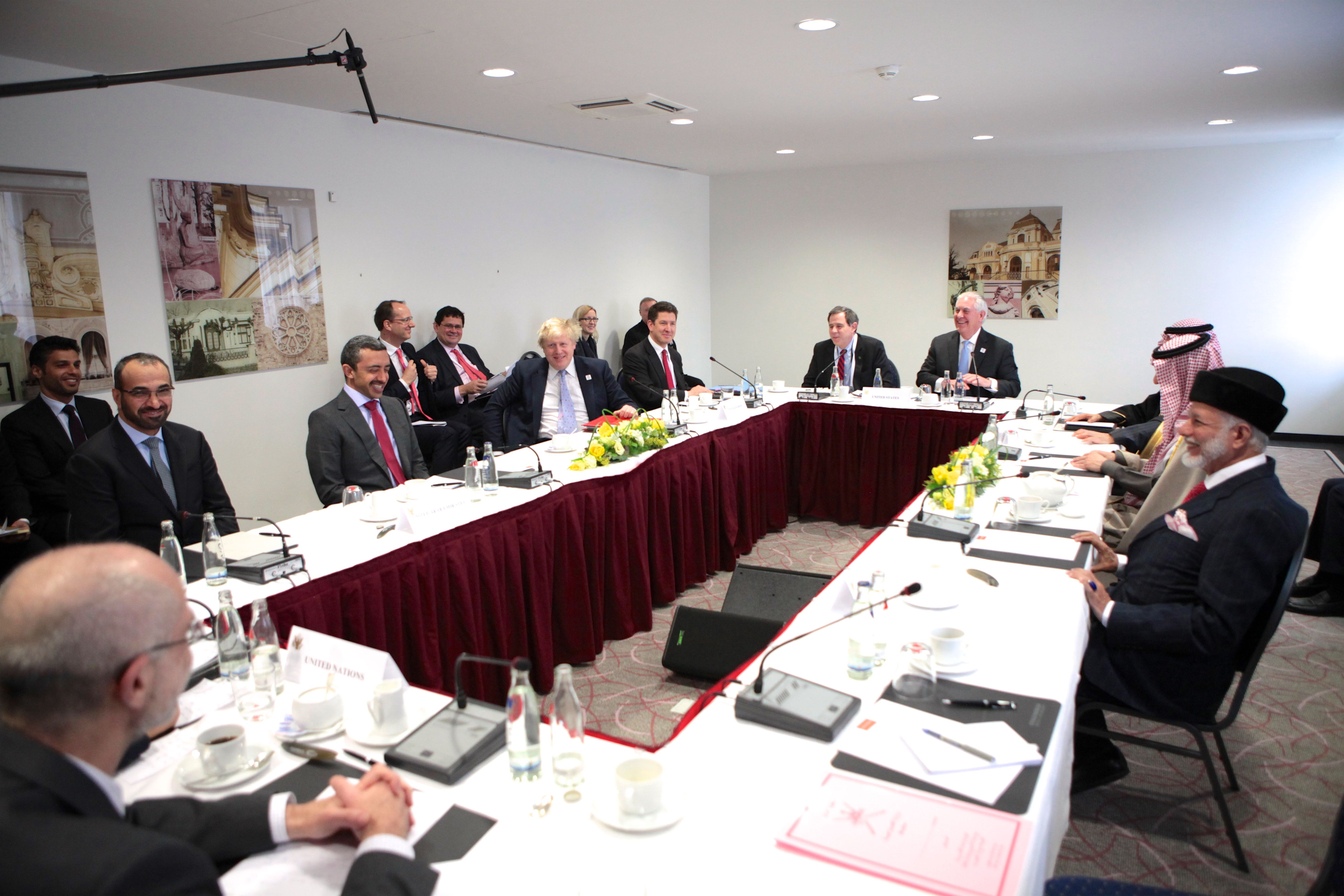 U.S. Secretary of State Rex Tillerson participates in a meeting on Yemen with counterparts from the United Kingdom, Saudi Arabia, United Arab Emirates, Oman, and the United Nations on the sidelines of the G-20 Foreign Ministers’ Meeting in Bonn, Germany, on February 16, 2017. This is his first official trip as Secretary of State. [State Department photo/ Public Domain]